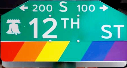 Philadelphia streetsign for 12th Street at the corner of Walnut Street in Washington Square West neighborhood. Displays rainbow flag as symbol of the neighborhood's LGBT identity.